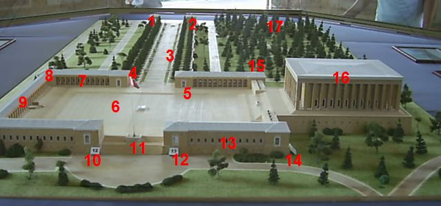 The miniature of Anitkabir